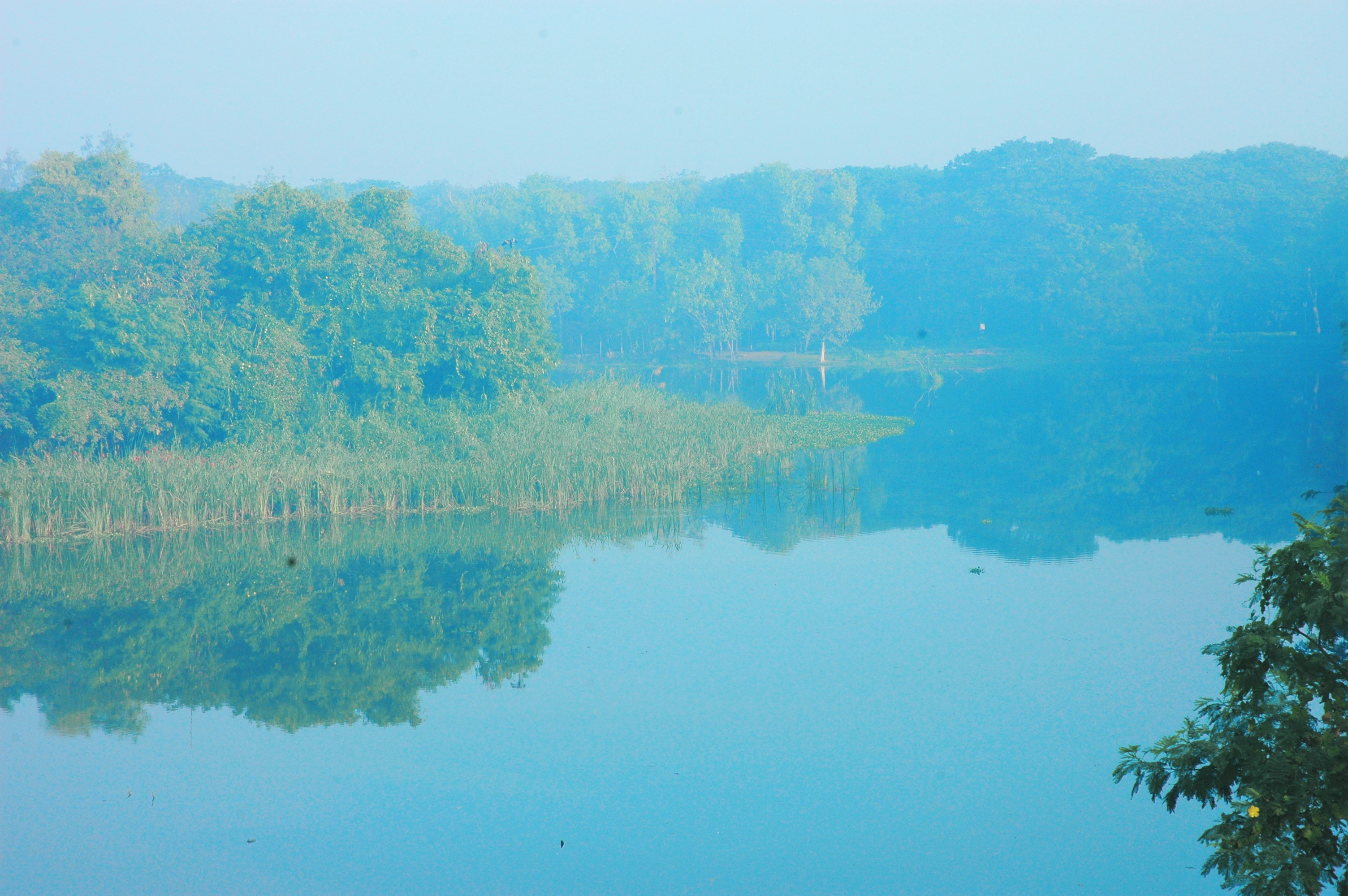 Near by Guntur City